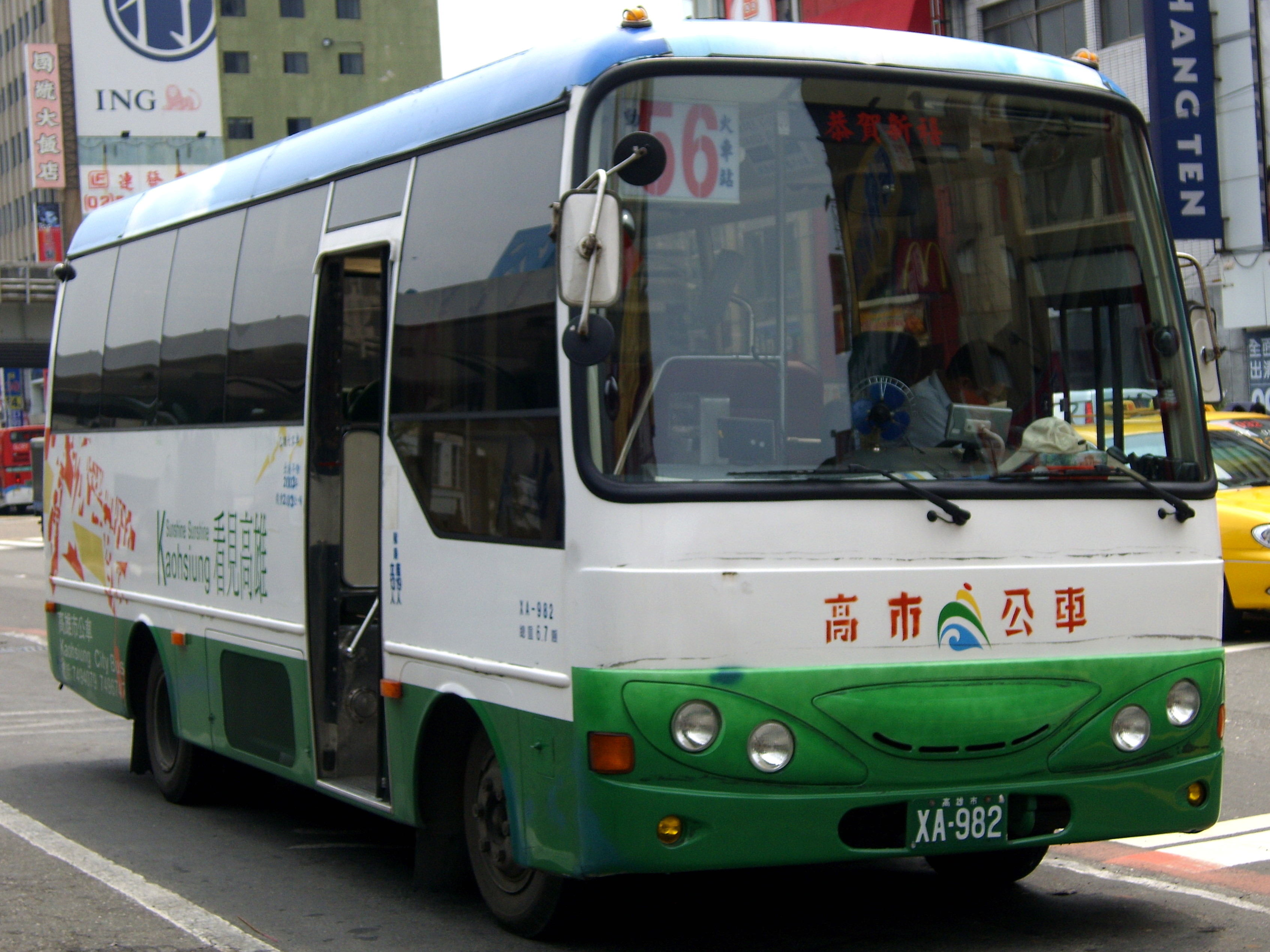 A Mitsubushi Fuso Canter FE649FB chassied bus (reg. XA-982) on line 56 is operated by Kaohsiung City Bus Department, Taiwan.